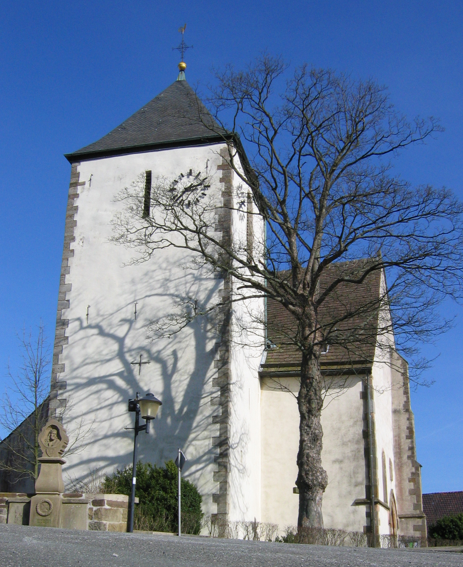 parish church "Mariä Geburt" in Dringenberg, Bad Driburg, NRW, Deutschland